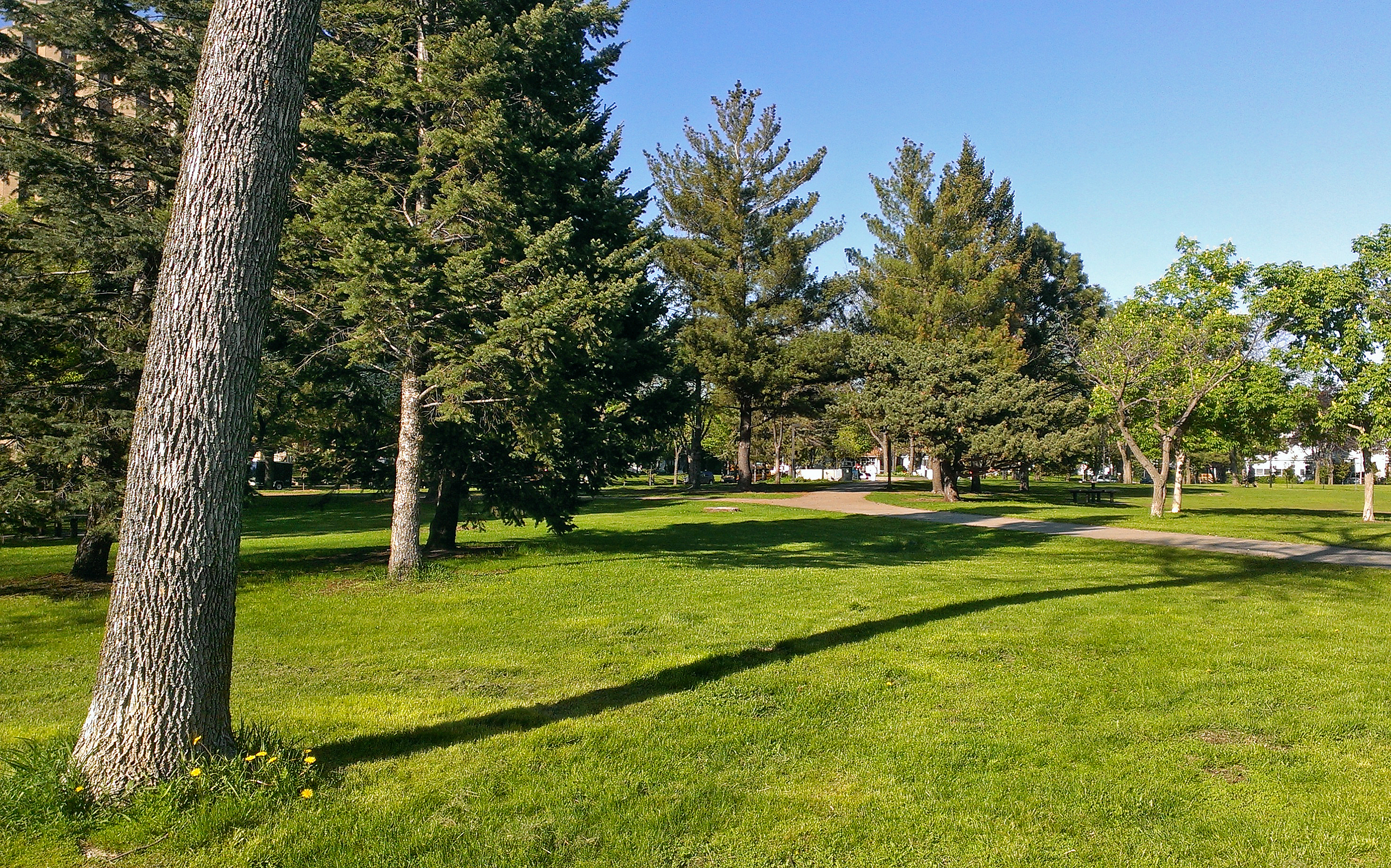 Horton Park Mini-Arboretum, St Paul, Minnesota, USA.